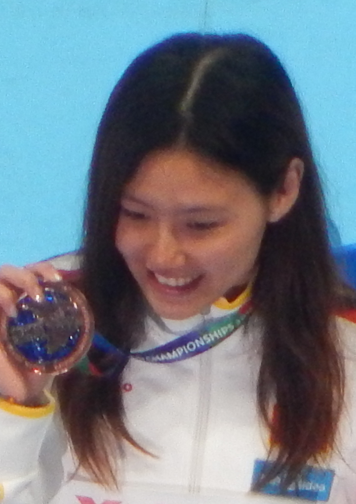 Medallists at the women's 50 metres backstroke in Kazan 2015: Liu Xiang.